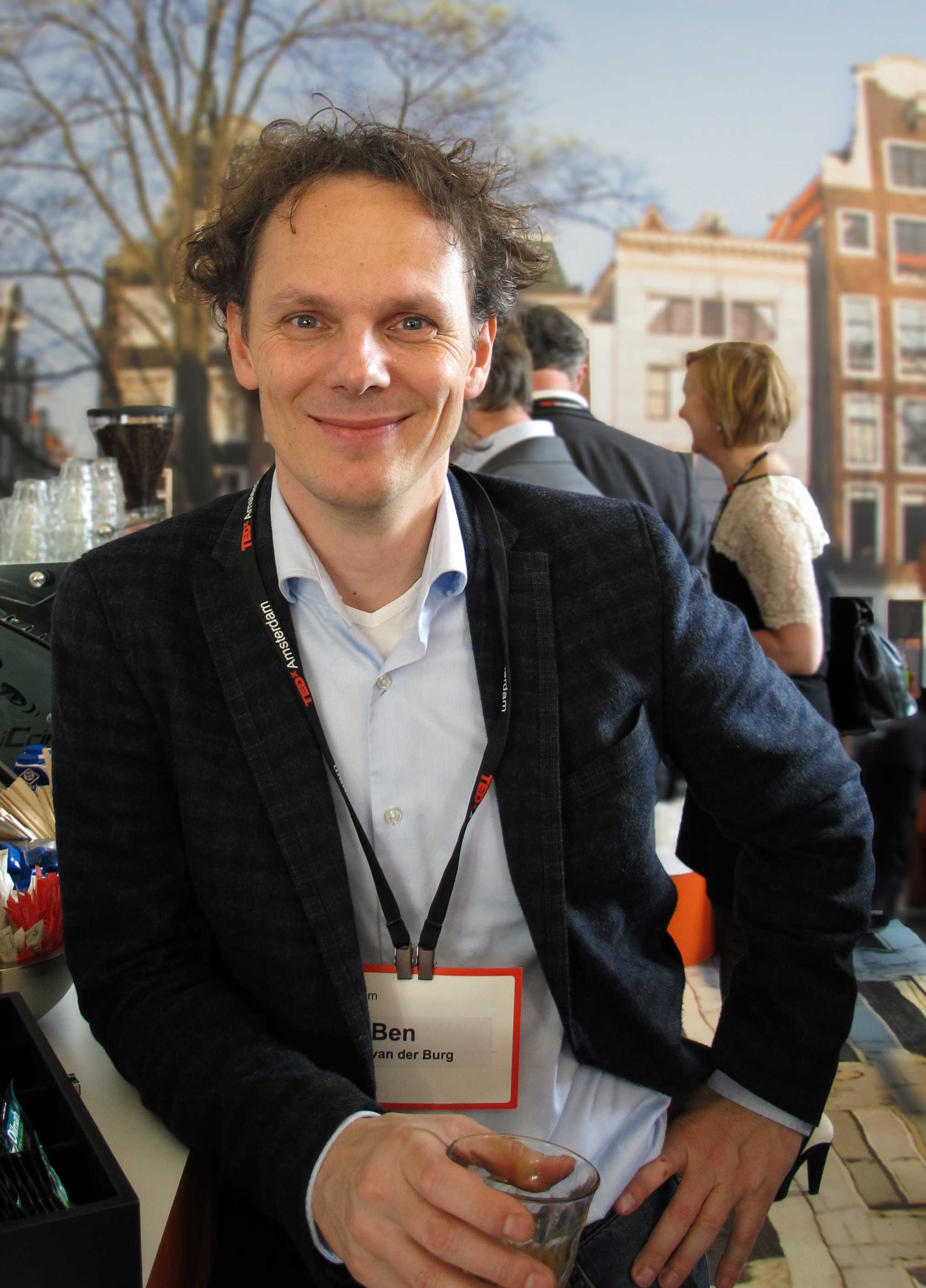 Ben van den Burg at TEDxAmsterdam